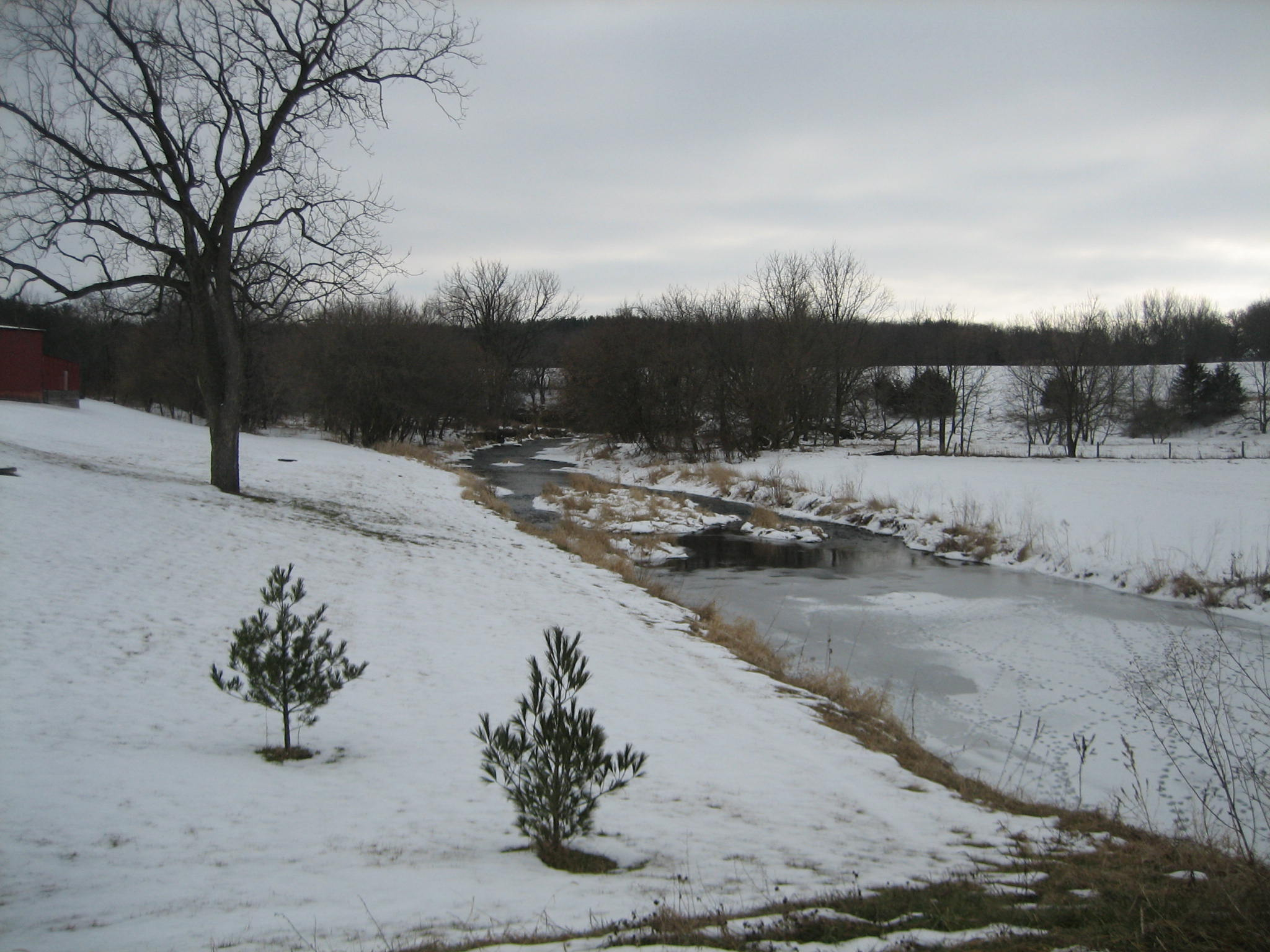 Pine Creek, north of White Pines Forest State Park, near Polo, Illinois and Mt. Morris, Illinois. Along Lowell Park Road.